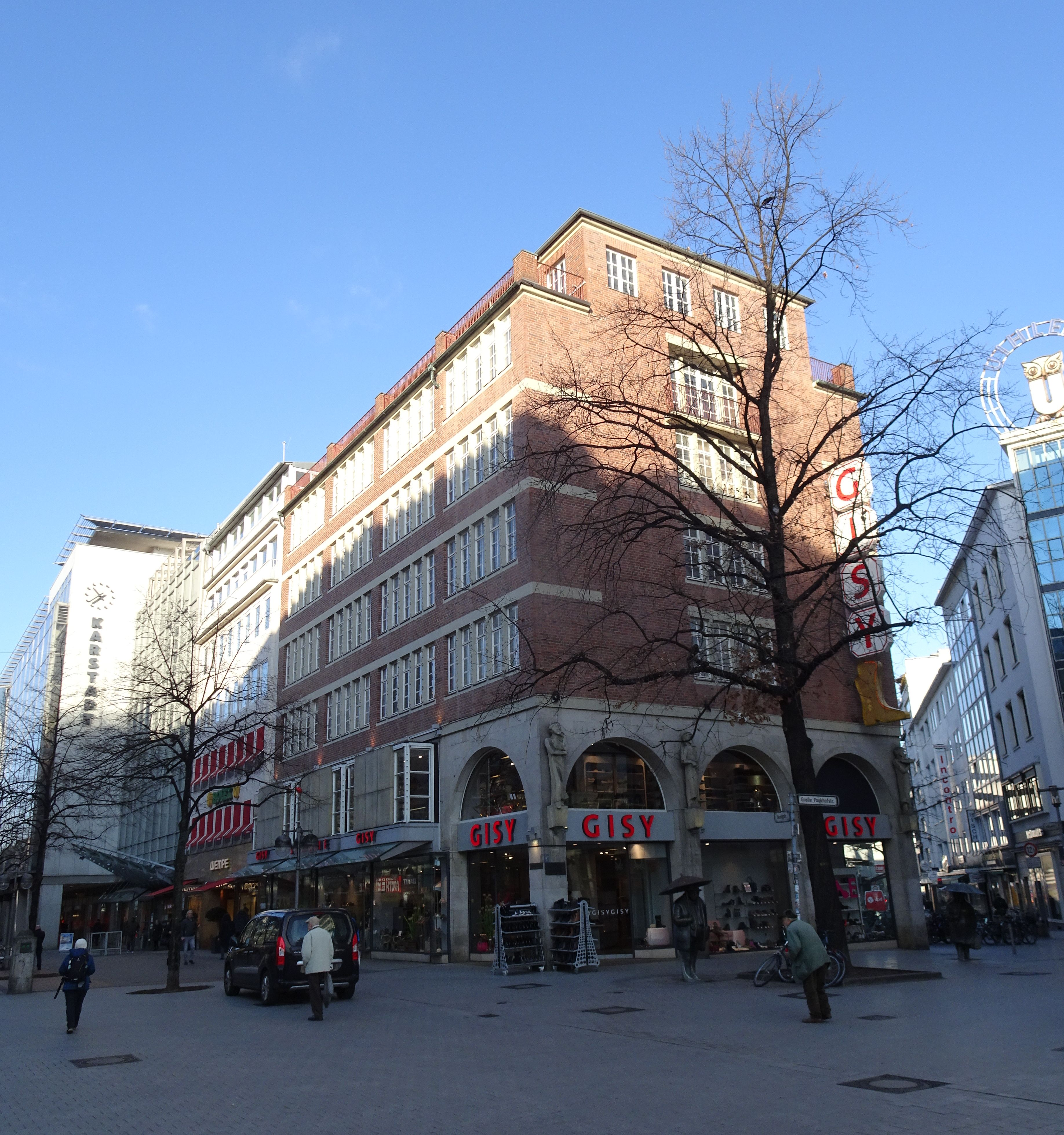 Building in Hannover, Germany